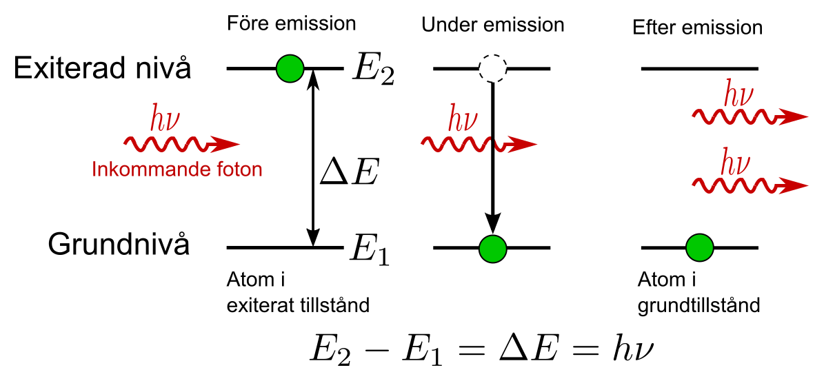 Stimulated emission